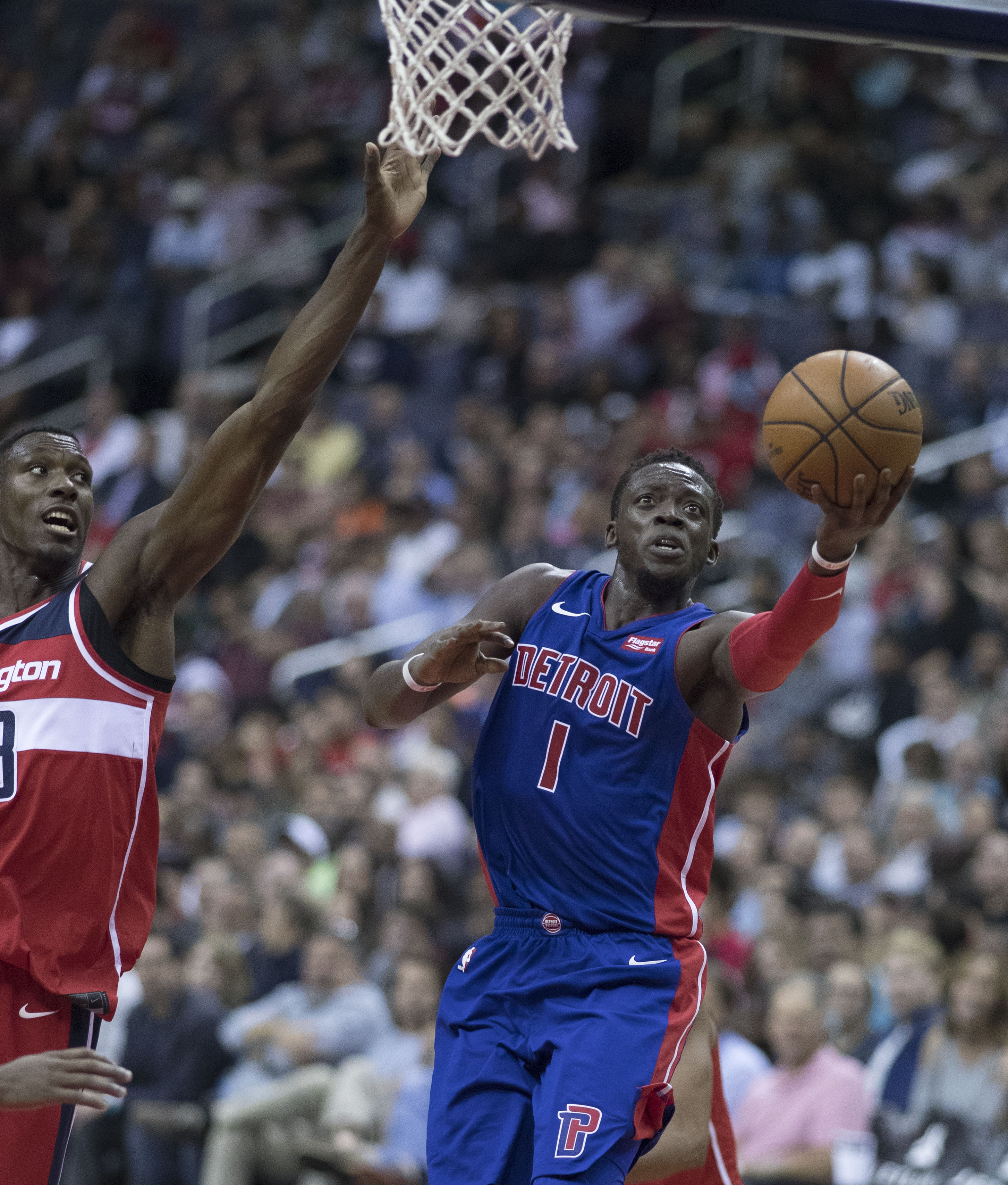 Pistons at Wizards 10/20/17